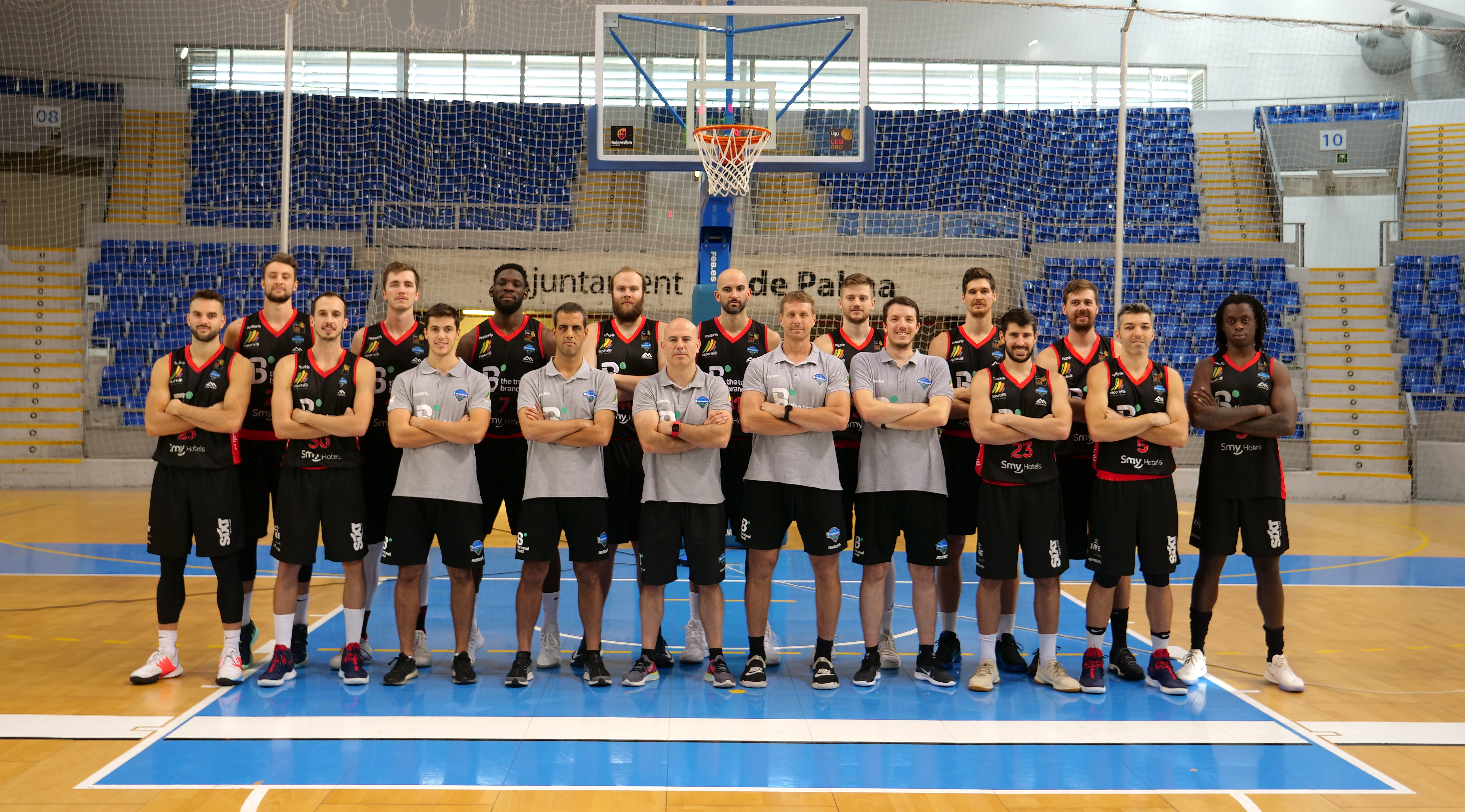 Plantilla del B the travel brand Mallorca temporada 2019 - 2020